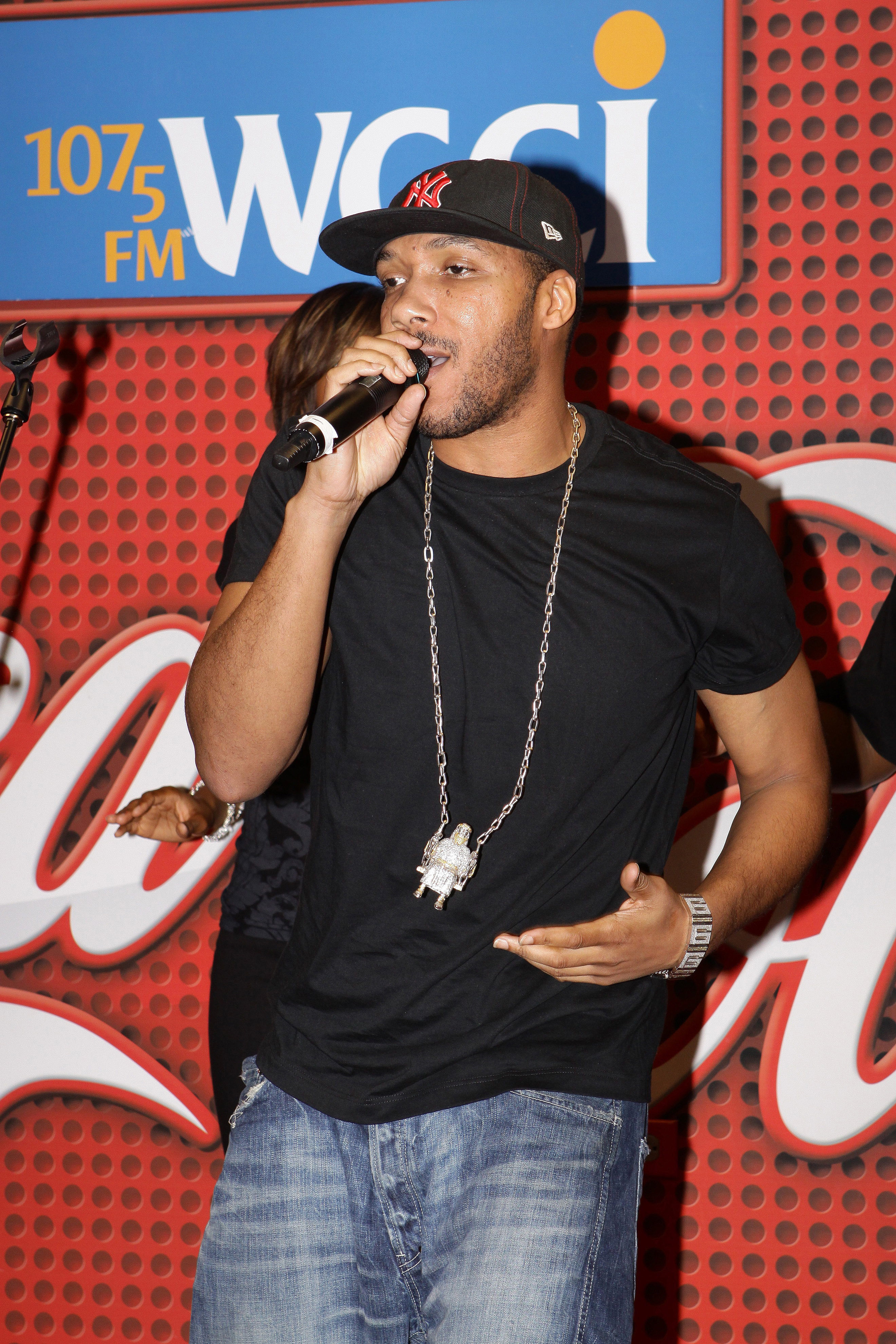 Lyfe Jennings peforms in the WGCI "Coca-Cola Lounge" in Chicago.